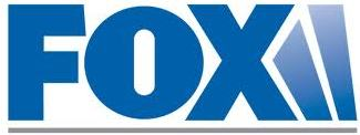 This is the logo for Fox Mobile Entertainment